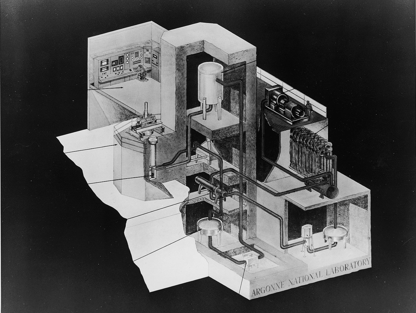 Experimental Breeder Reactor I. Cutaway view of the power plant.